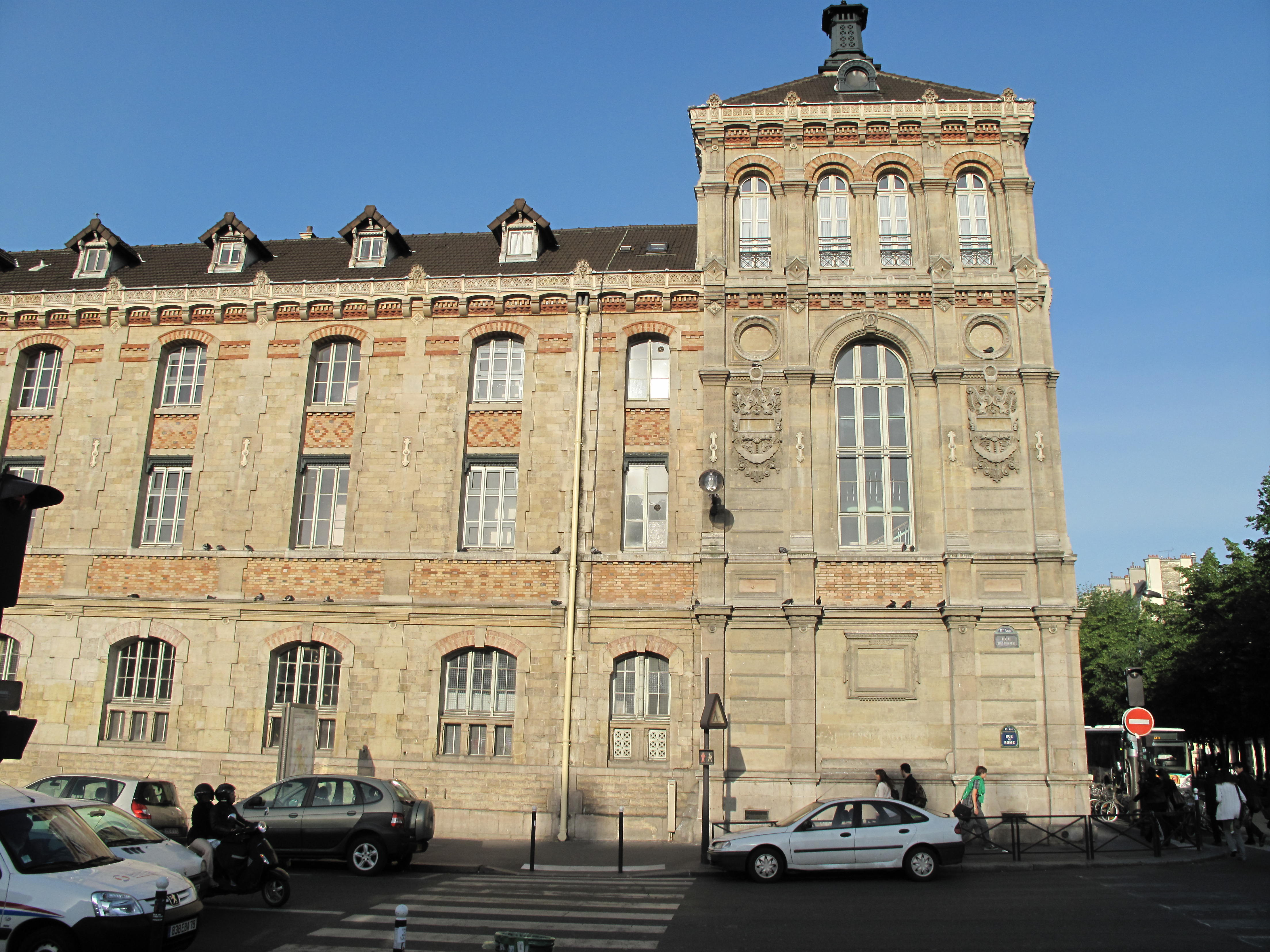 Lycée Chaptal, Paris, on the side of the rue de Rome